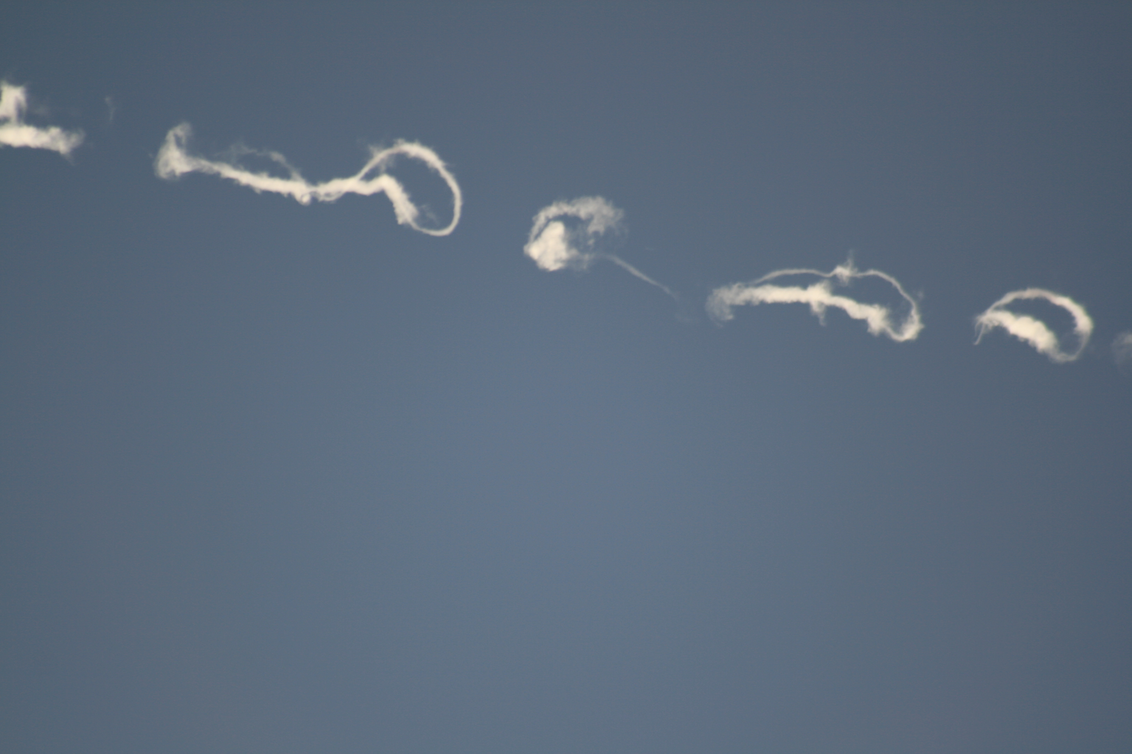 This contrail is example of Crow Instability. Crow Instability is an inviscid line-vortex instability, named after its discoverer S. C. Crow. It is observed when the vortices caused by aircraft are being whirled from being otherwise straight contrails into spirals then donut-shaped rings.